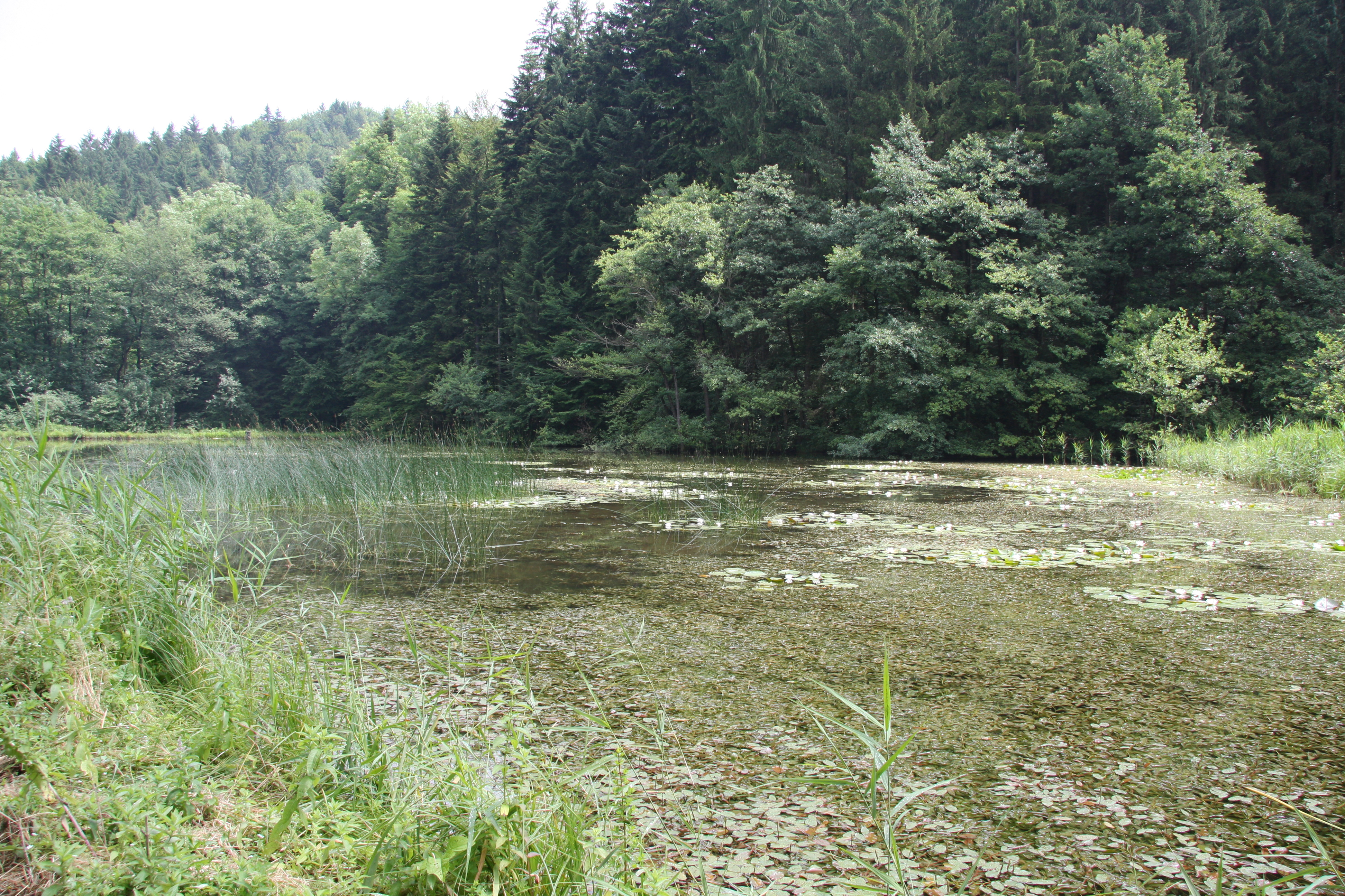 One of the Draga valley ponds near Ig, Slovenia.